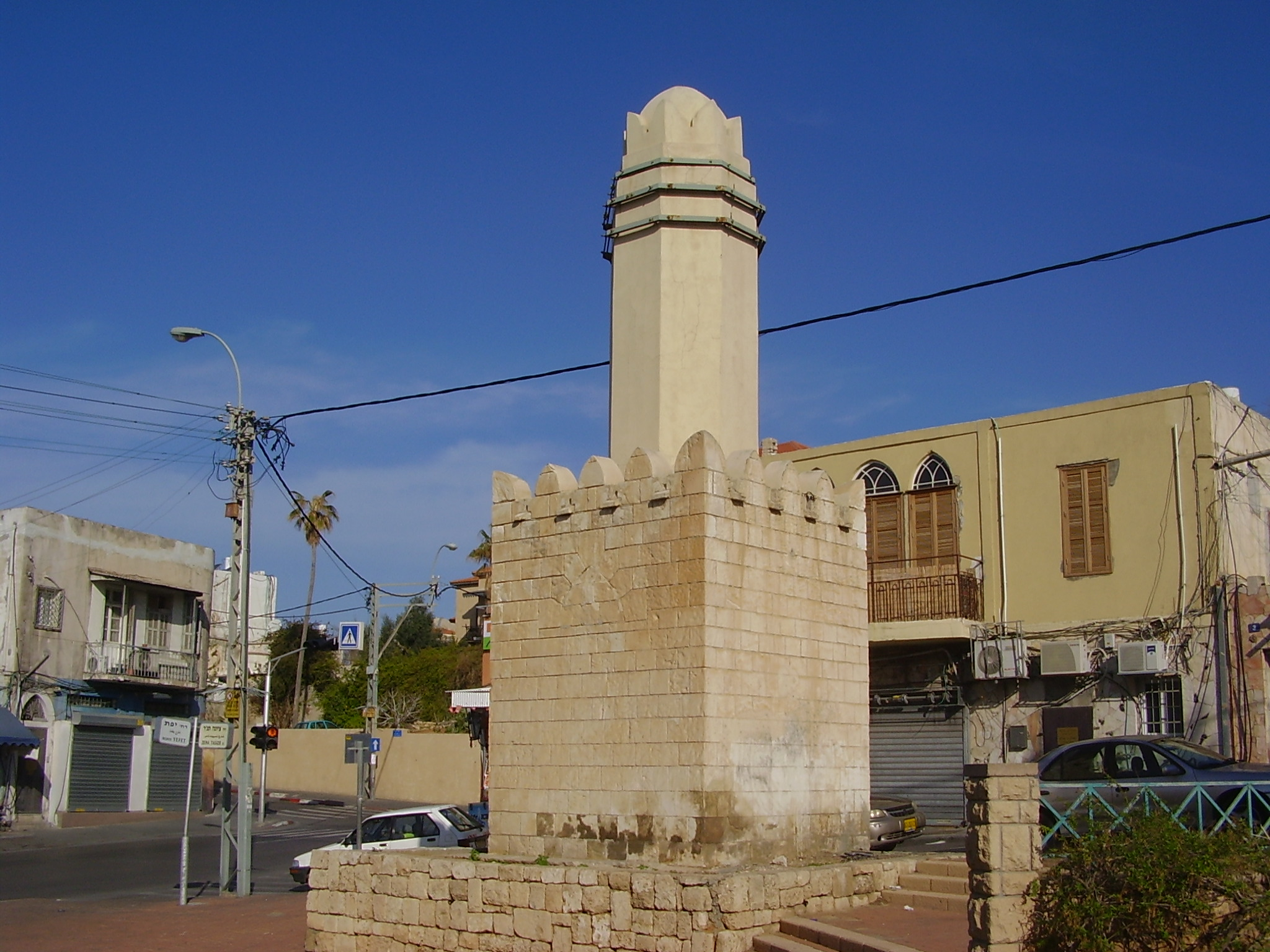 jaffa mandatory transformer building